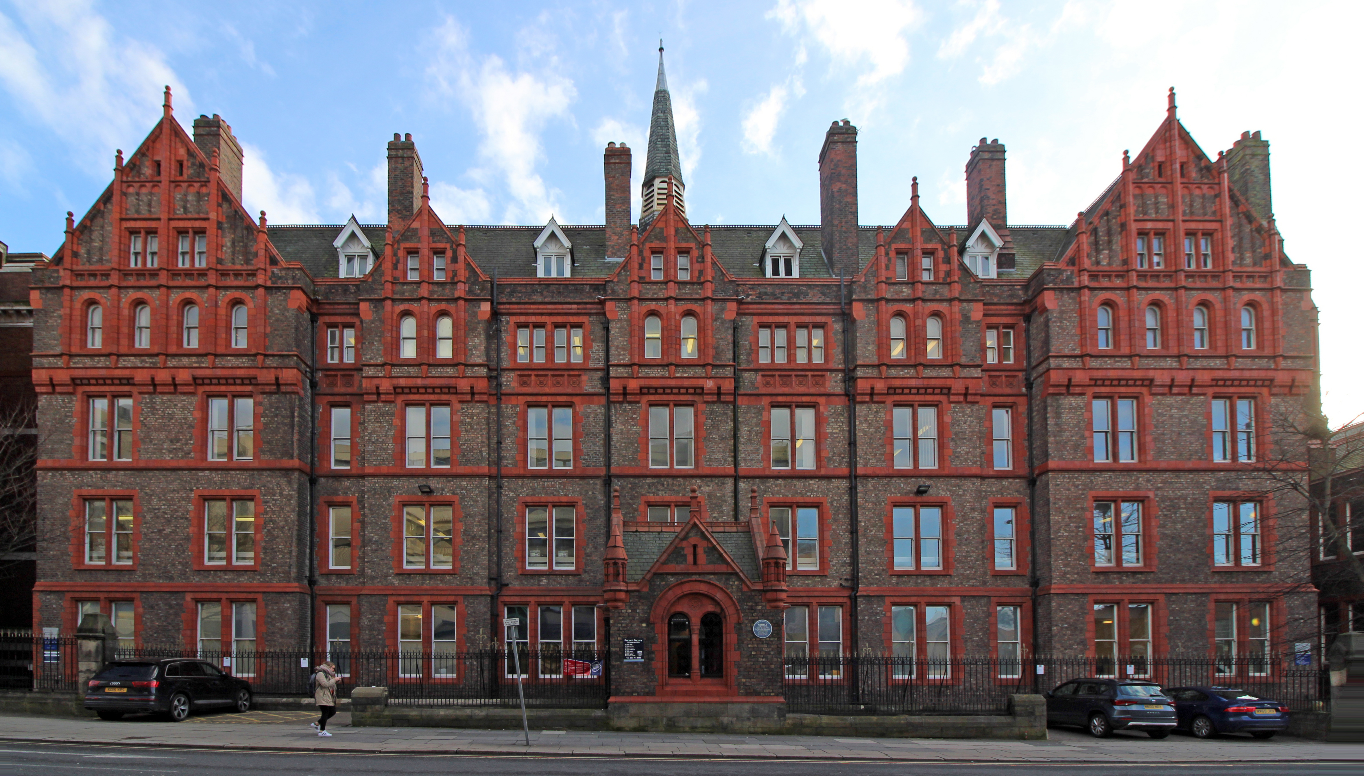 Front elevation of the former administration block of Liverpool Royal Infirmary on Pembroke Place, it is part of the Waterhouse Building and is Grade II listed. It is now occupied by a medical centre.